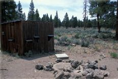 Bird Blind at Cabin Lake Guard Station in the Deschutes National Forest in central Oregon.